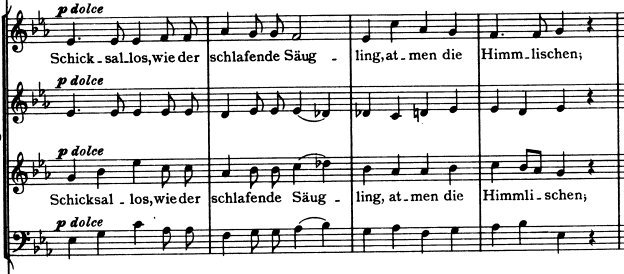 J. Brahms, Schicksalslied, Opus 54. Choral Excerpt 3